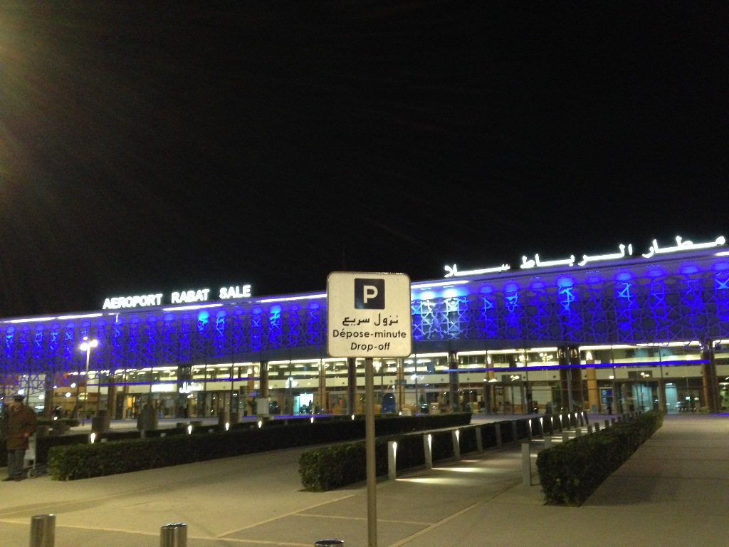 rabat airport at night